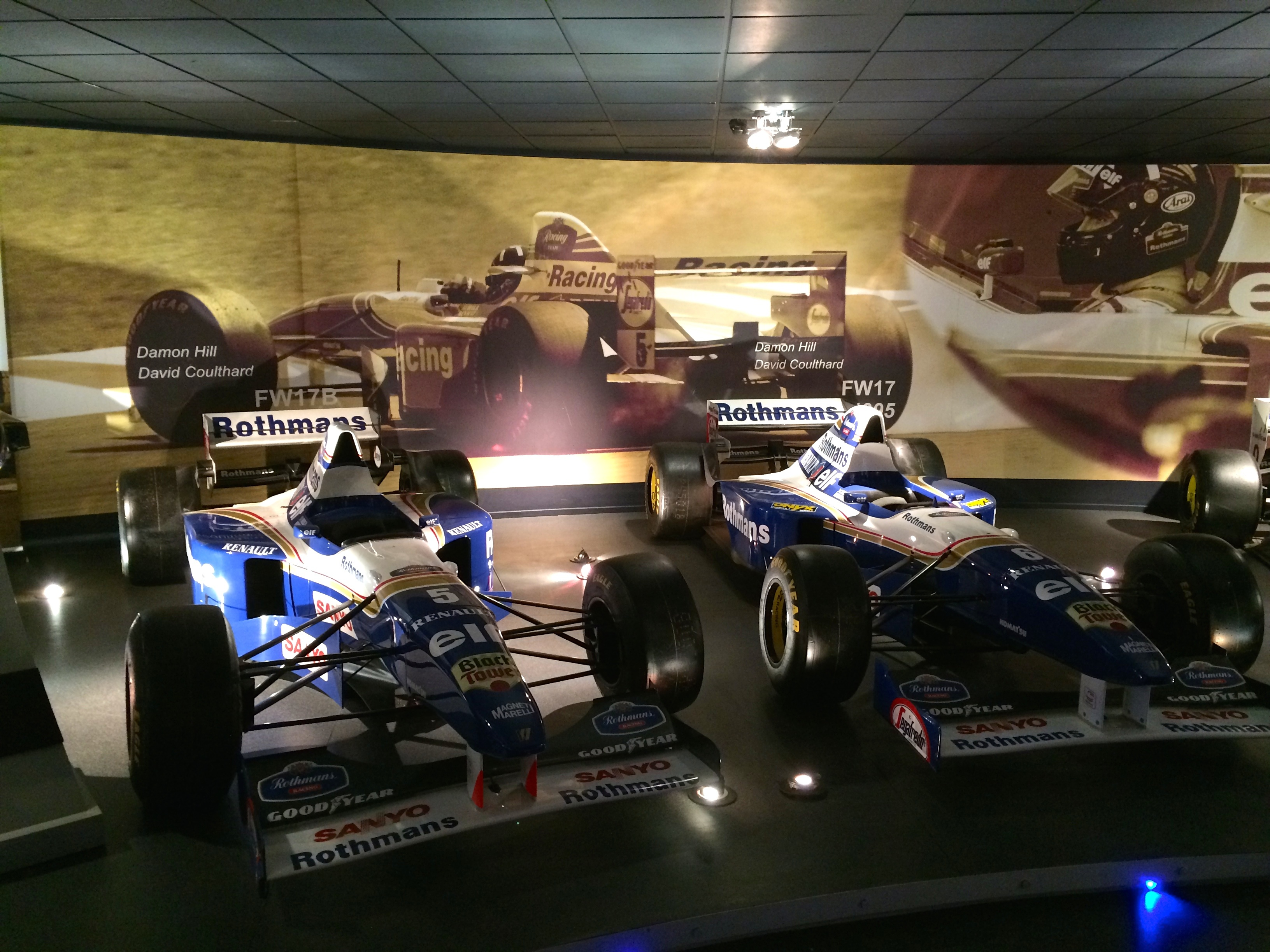 Two Williams FW17's on display. The cars were driven by Damon Hill and David Coulthard.